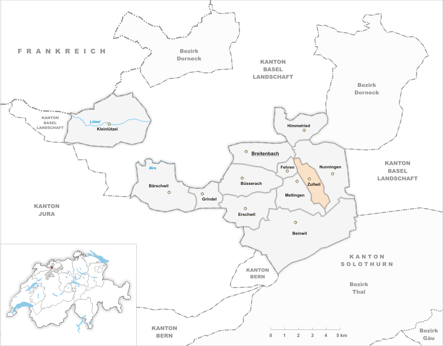 Municipality Zullwil